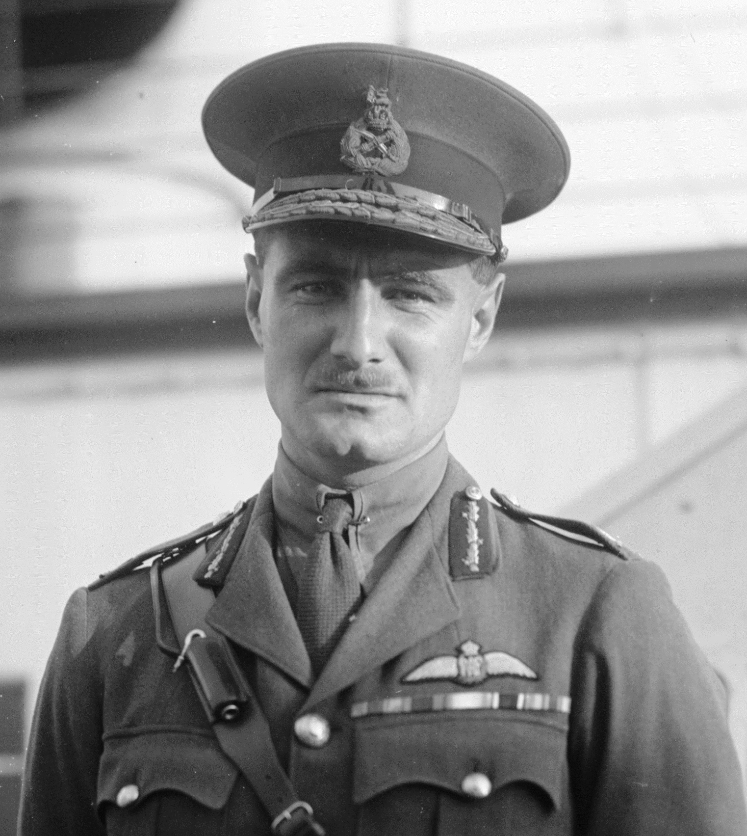 Brigadier-General Alfred Critchley in Army uniform.